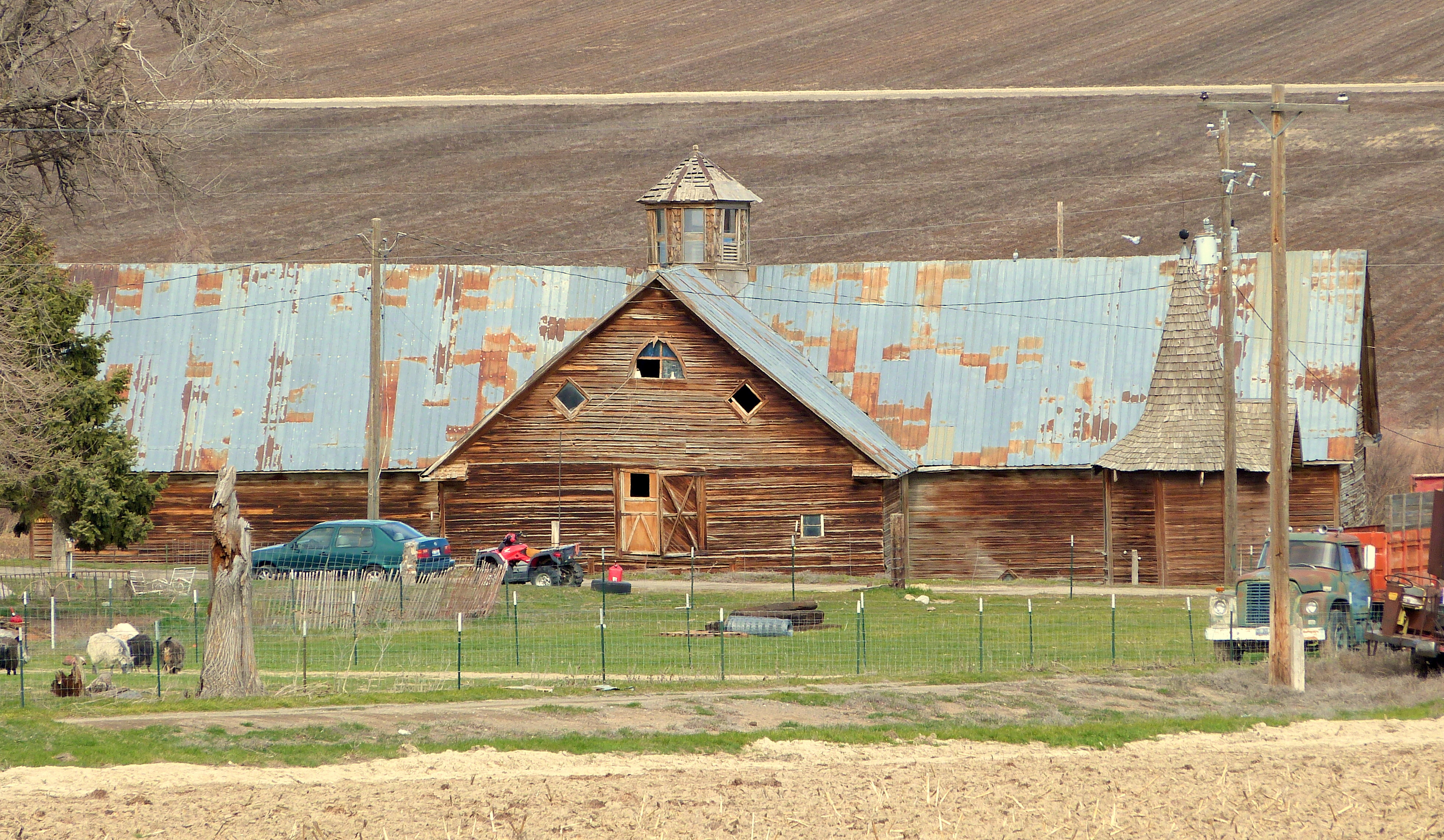 The historic barn at Bernard's Ferry (built 1884), located near Murphy, Idaho, United States, is listed on the US National Register of Historic Places.